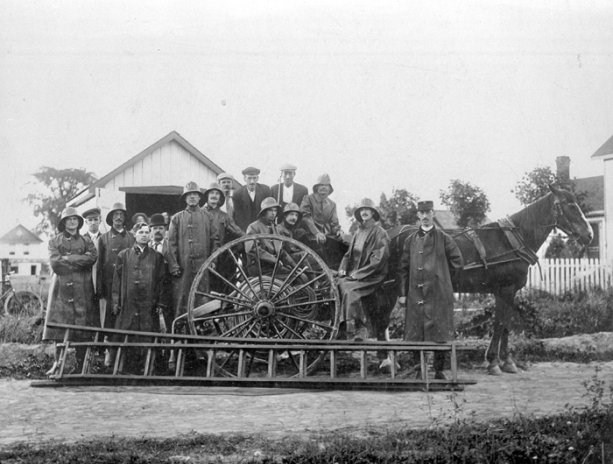 Bedford Park Volunteer Fire Brigade, Toronto ca. 1900 Shows: Bert Cook, Charlie Taylor, Charles Forth, E.R. Forth, Bill Young, Mr. Anthill; sitting on reel: Art Phipps, Bill Smith, John Atkinson; standing by horse: Constable Collins